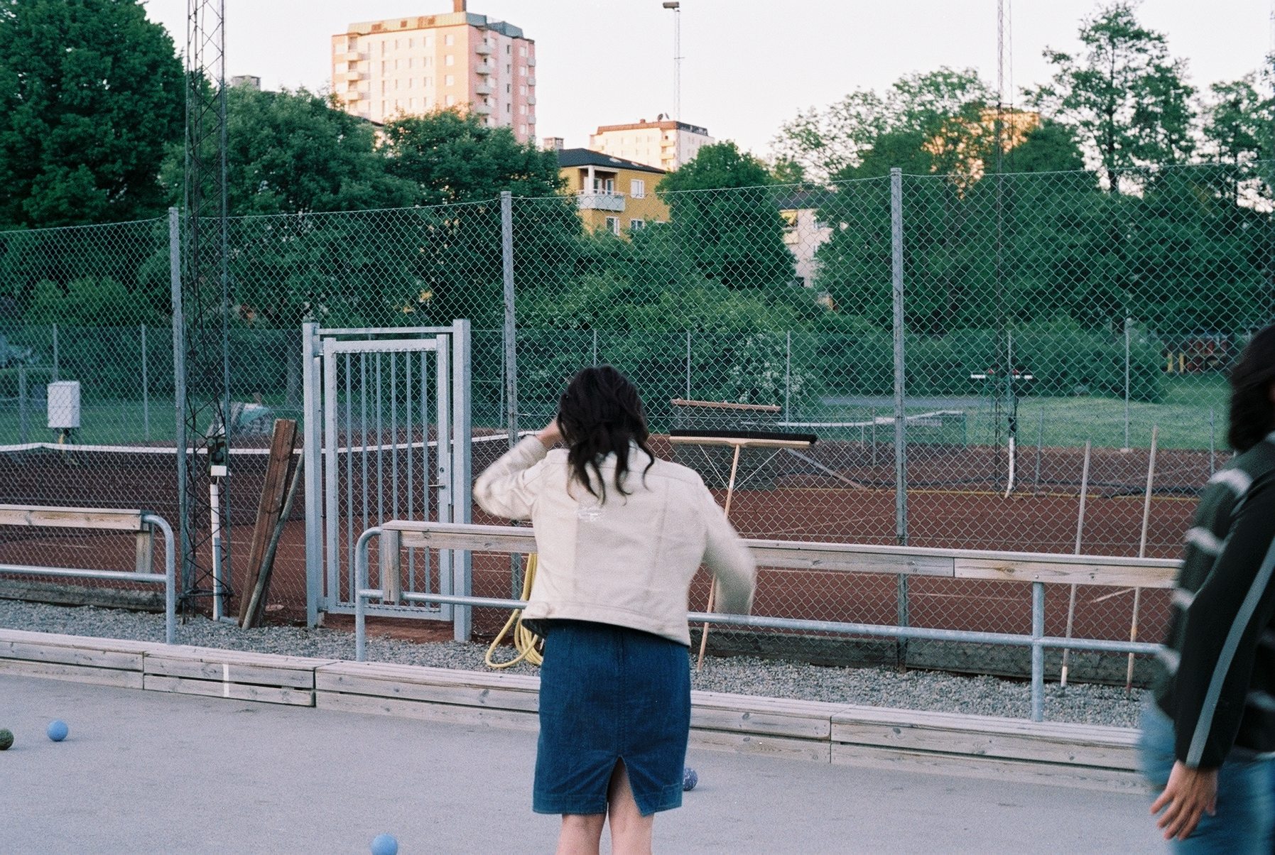 Boccia is a competitive sport, similar to bowls but designed to be played by people with disabilities